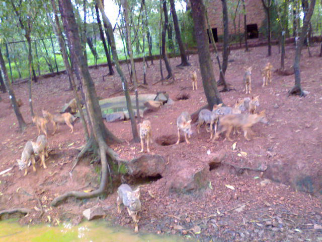 Clicked by me. Wolves in the theme park of Pilikula Nisargadhama in India.